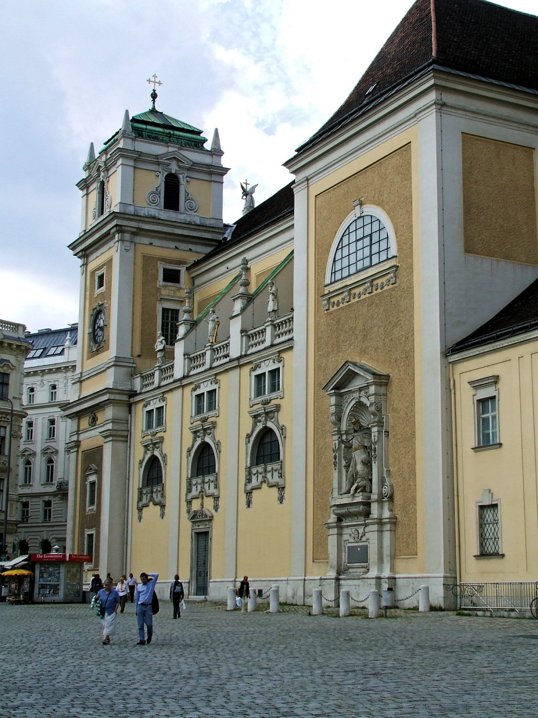 Schottenstift Vienna, Freyung 6